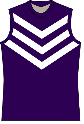 Jumper design for the Fremantle Football Club.